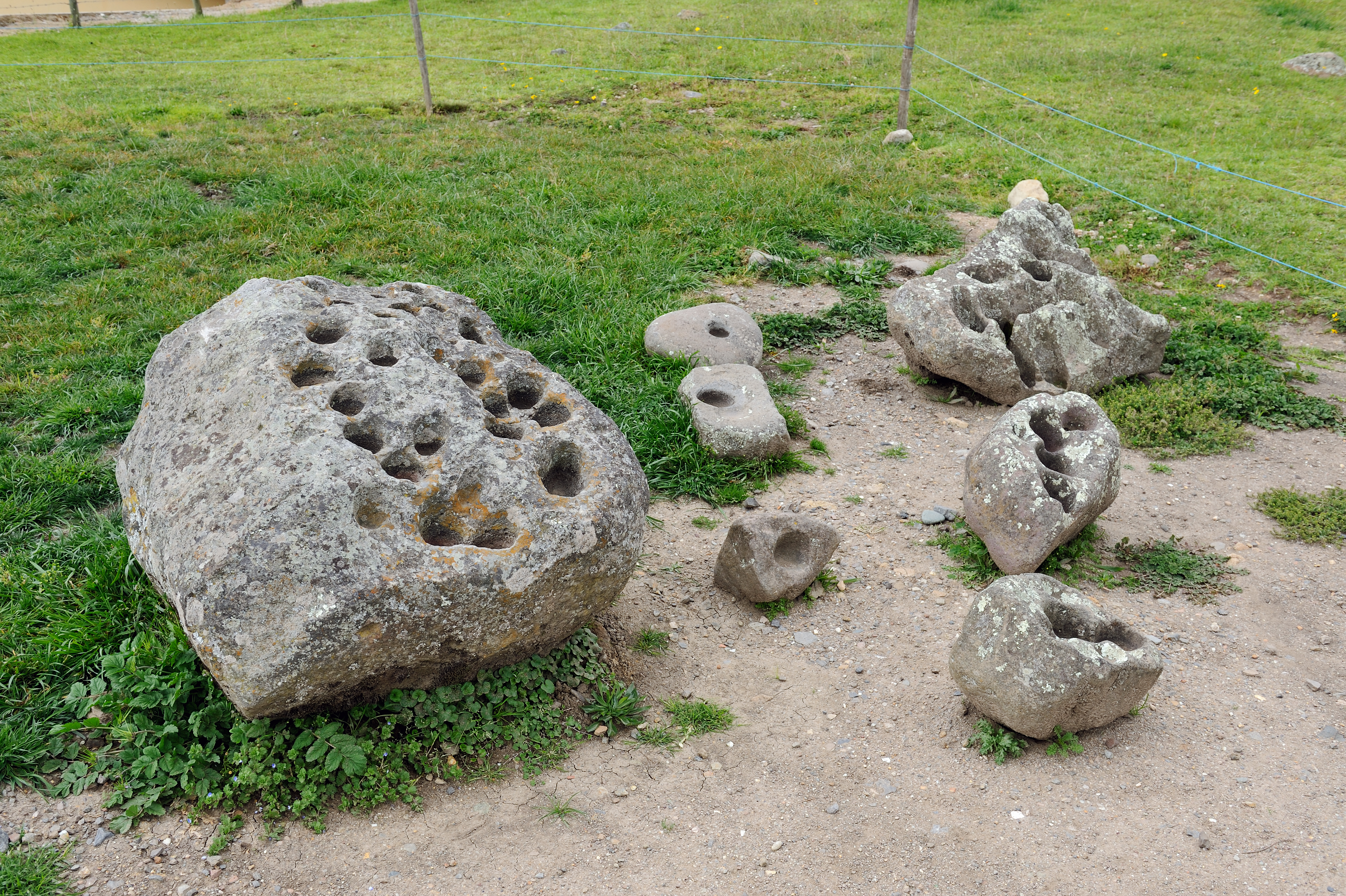 Ingapirca, Ecuador, Cañari-Incan ruin site: solar (left) and moon (right) stone calendars. The stones were found some kms away from the archaeological site were they are presently deposited.